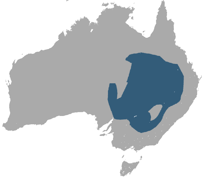 Narrow-nosed Planigale (Planigale tenuirostris) range